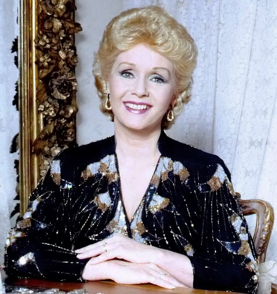 Debbie Reynolds in her Bedroom in Los Angeles